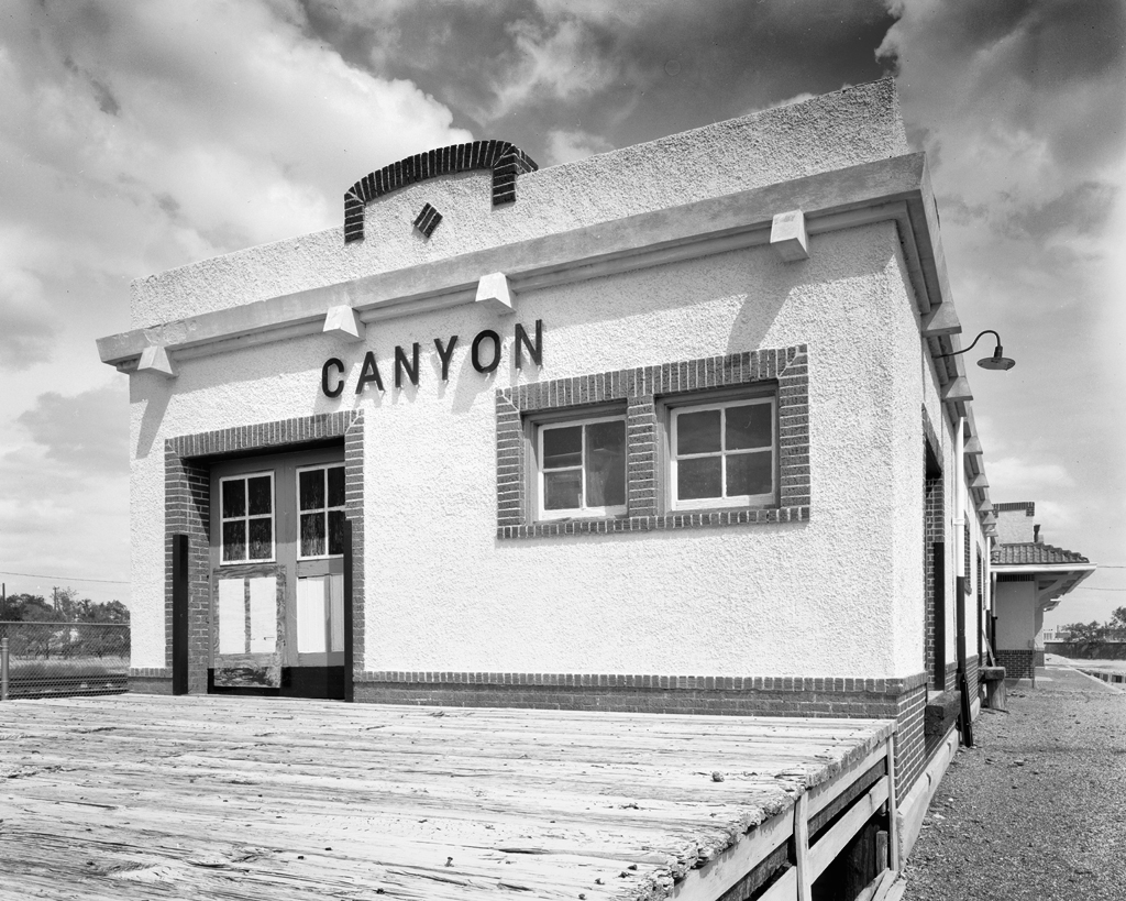 Canyon, Texas